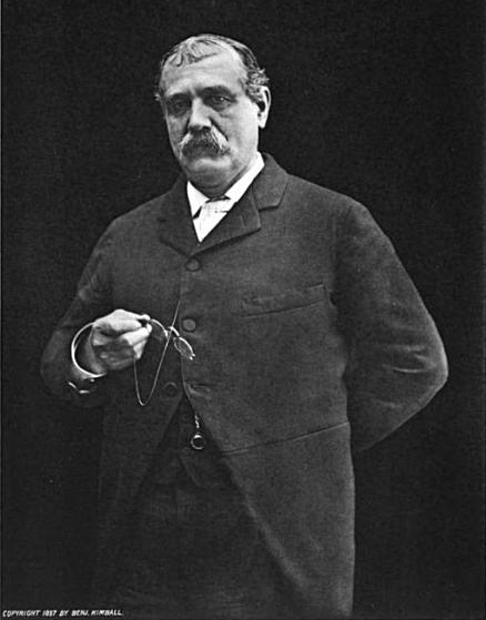 Frontispiece of Meetings held in commemoration of the life and services of Francis Amasa Walker (1897).